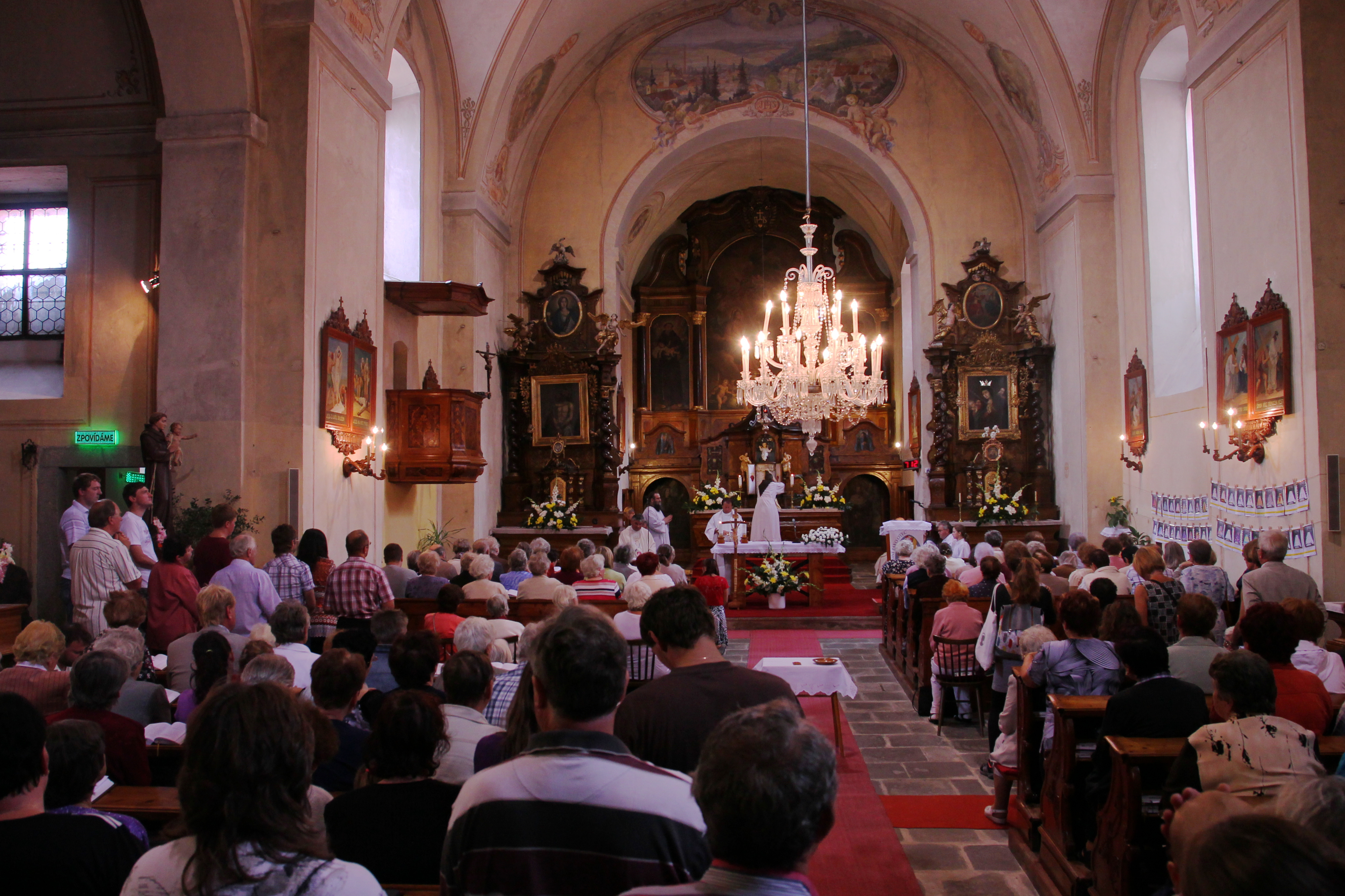 Holy mass – Porziuncola, Church of St Felix, Sušice 2. 8. 2016